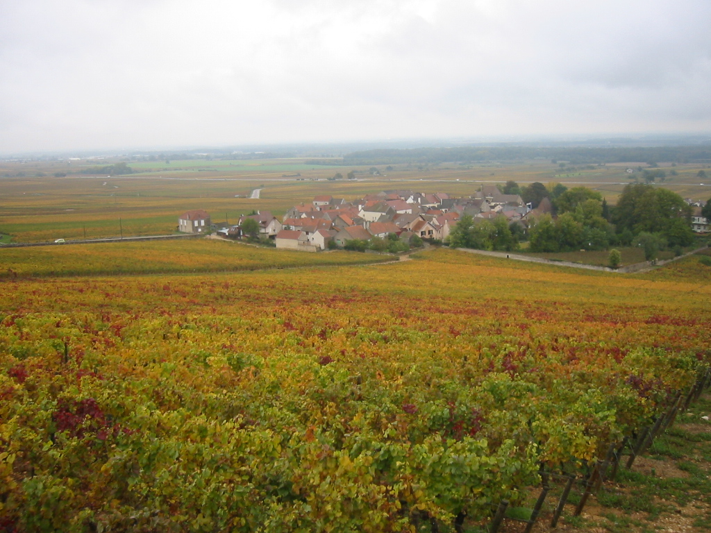 Vineyards in Morey Saint Denis in Burgundy in autumn